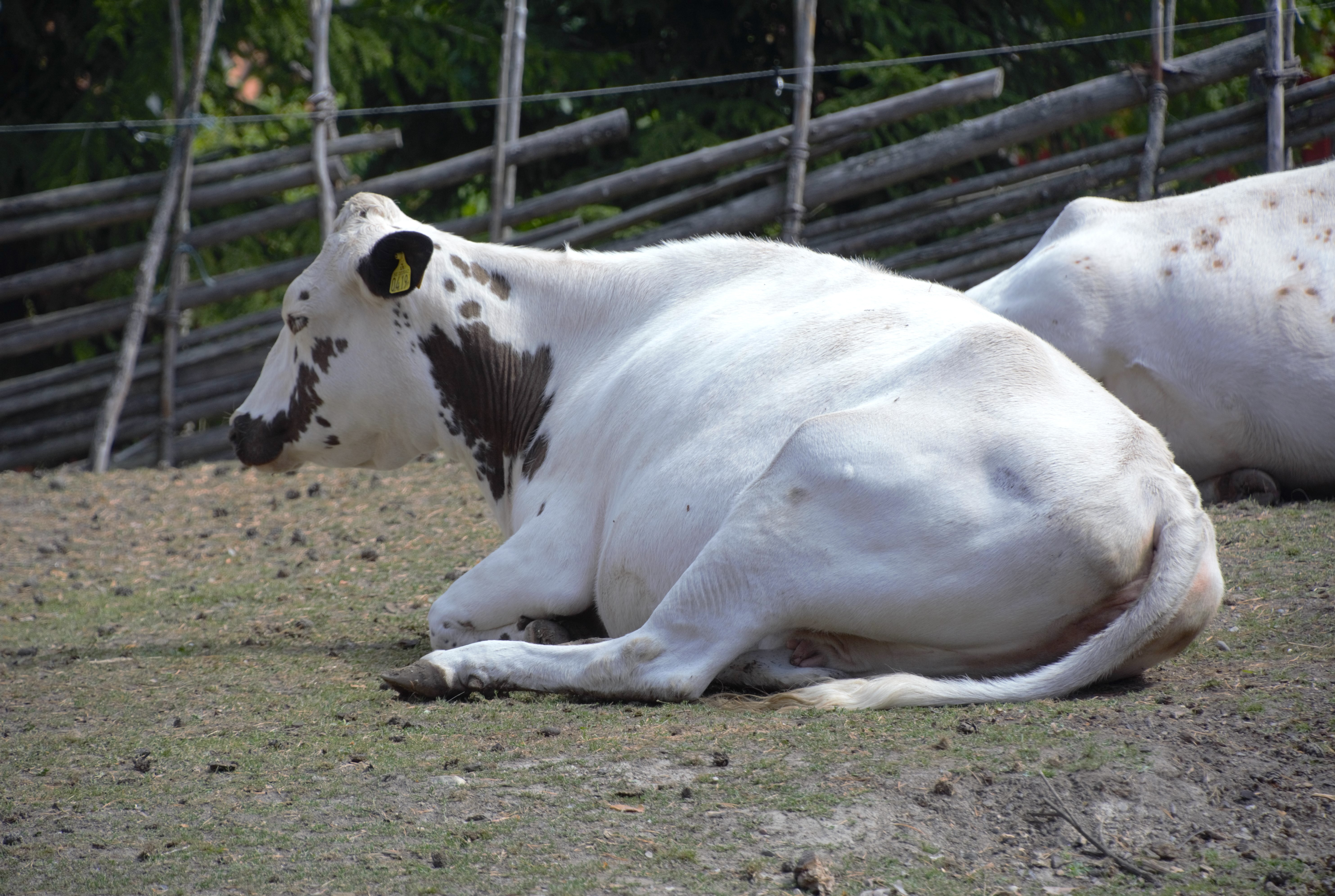 Bohuskulla Swedish Country Cow rase